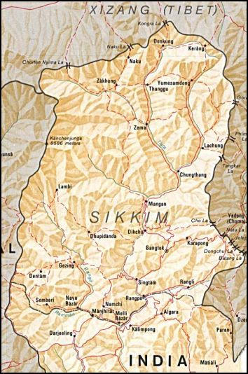 Map Of Sikkim